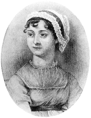 Portrait of Jane Austen (late nineteenth-century engraving). Like all older "portraits" of Austen, this is based on the engraving in the 1870 Edward Austen-Leigh Memoir of Jane Austen, which was based on a somewhat rudimentary life sketch of Jane Austen by her sister Cassandra (a sketch which was generally not considered too successful by those who had known Jane Austen), as reinterpreted and Victorianized in 1869 by Mr. Andrews of Maidenhead, Kent, and then the engraver (see Jane Austen: A Family Record, p. 253). The 1870 engraving which was the result of this process was further redone and reinterpreted in subsequent publications, with varying results. The accuracy of all of these "portraits" is somewhat doubtful, but this particular version is one of the best, since it doesn't make Jane Austen look stiff or silly (unlike some of the renderings in photo archives which are continually pulled out when the media run stories on Jane Austen). See also Image:Jane Austen 1870.jpg for a reproduction of the original 1870 engraving this re-engraving is based upon.